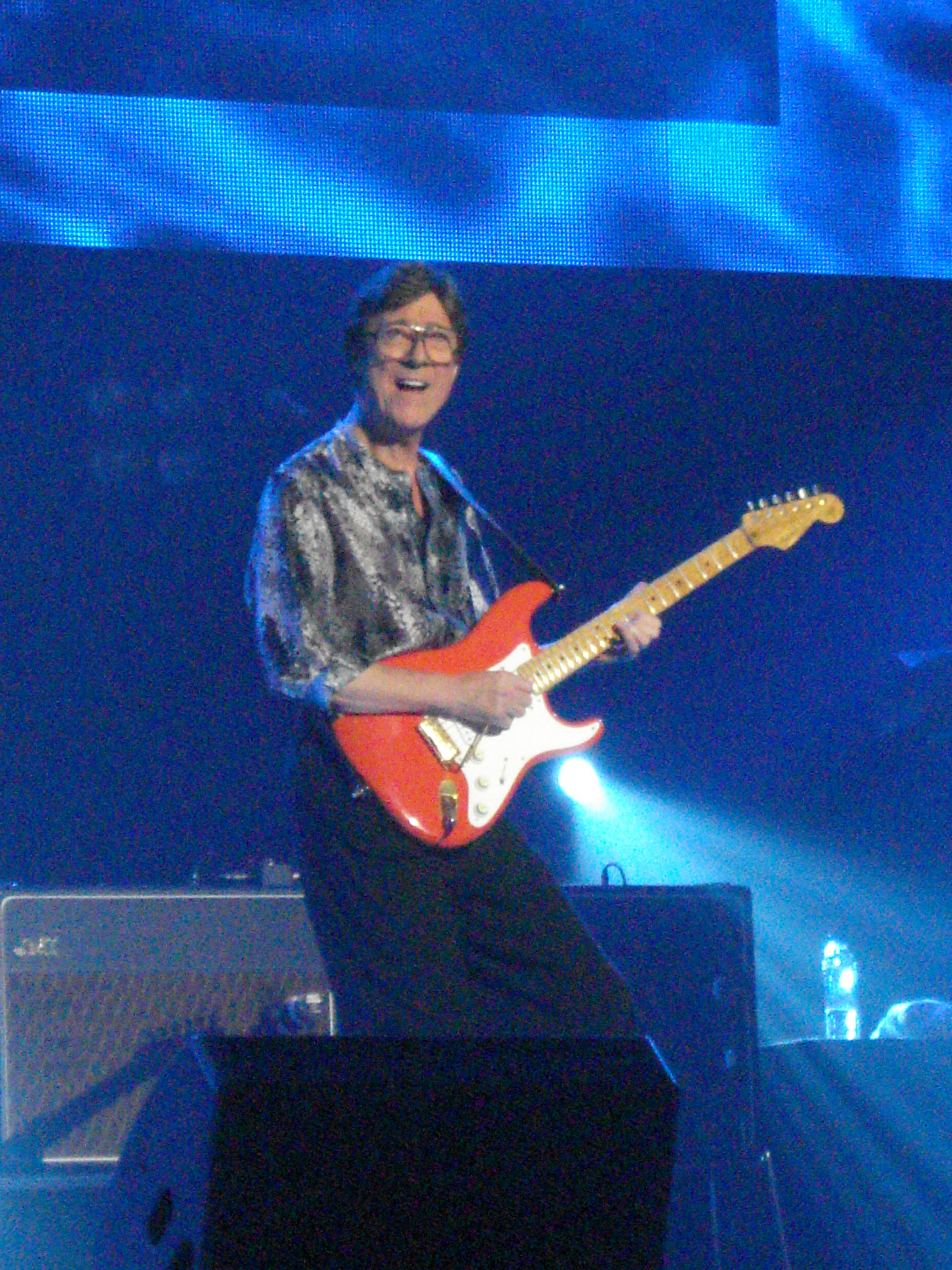 Hank Marvin in concert with the Shadows In Brussels "Forest National"